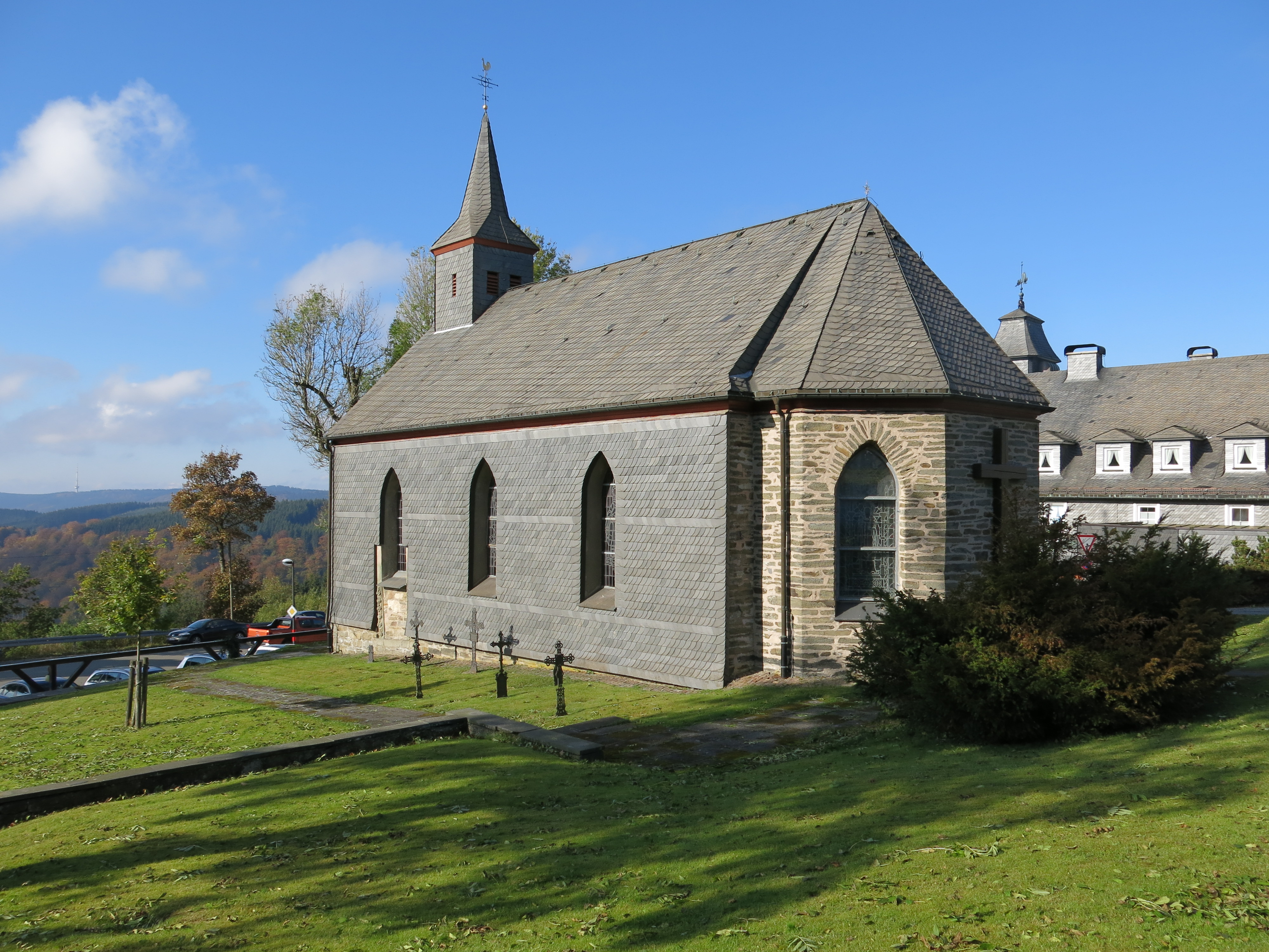 Old church in Altastenberg, Sauerland